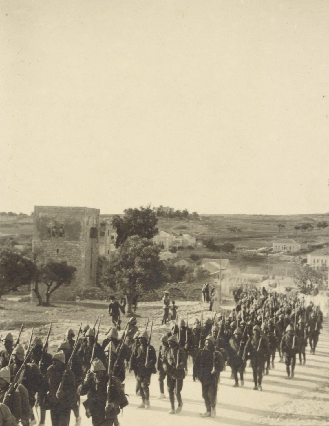 En route to the Suez Canal, 1914. LC-DIG-ppmsca-13709-00012 (digital file from original on page 5, no.11)